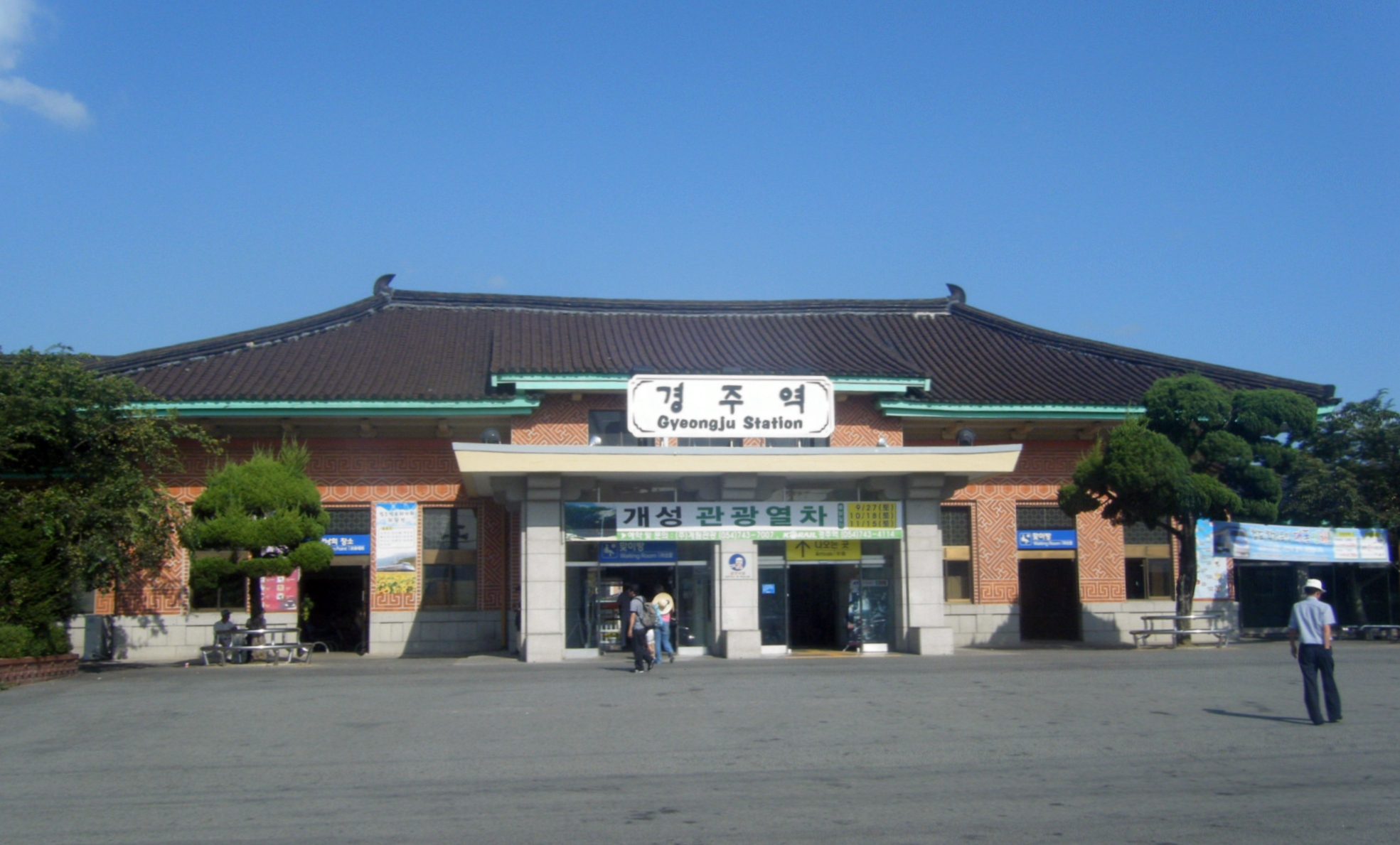 gyeongju Station (Donghaenambu Line), Gujeong-dong, Gyeongju-si, Gyeongsangbuk-do